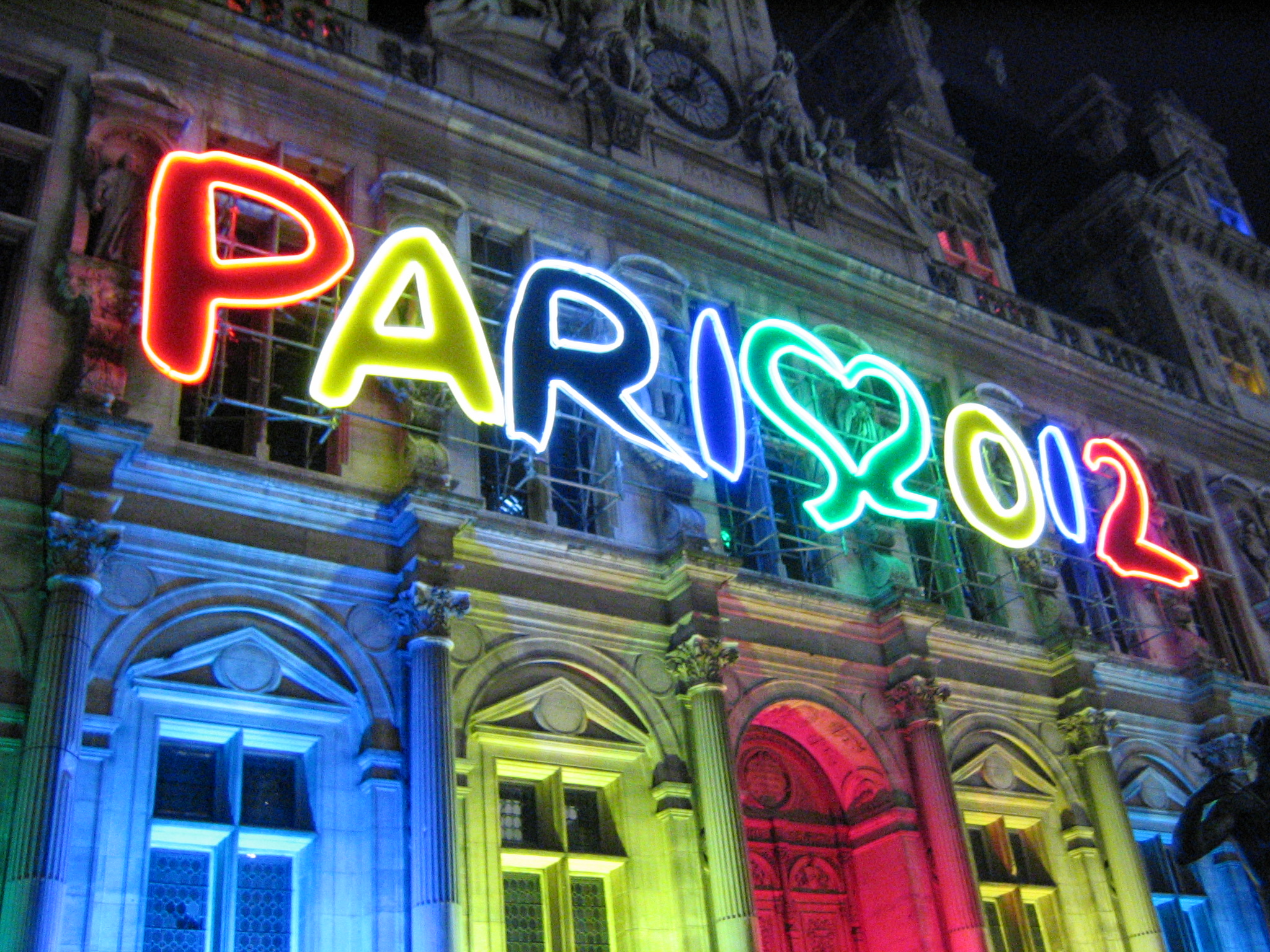 Façade of the Hôtel de Ville (City hall), Paris